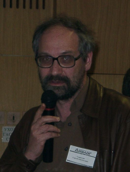 S. Starostin, Russian linguist.